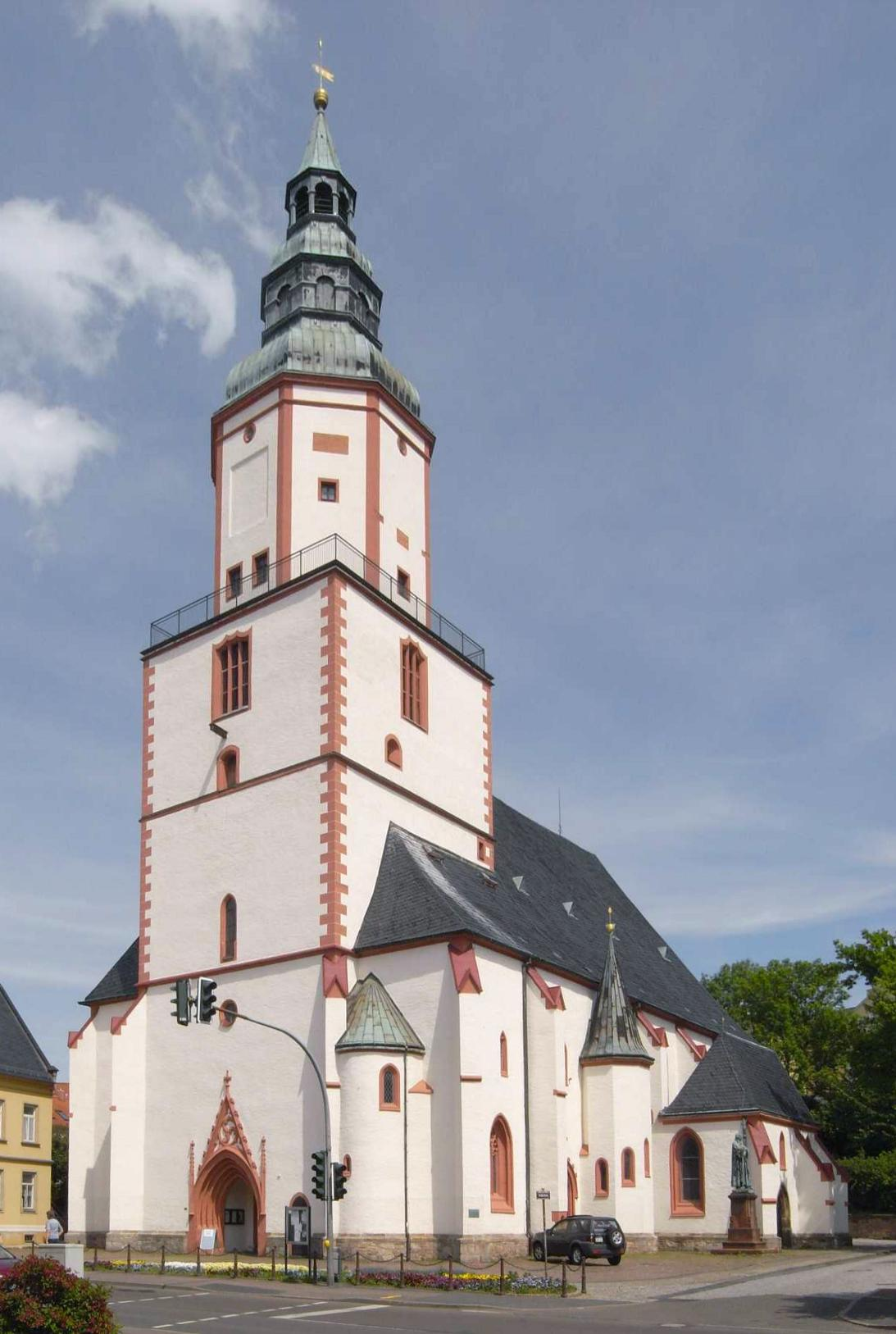 Church St. Nicolai, located in Döbeln (Saxony, Germany)